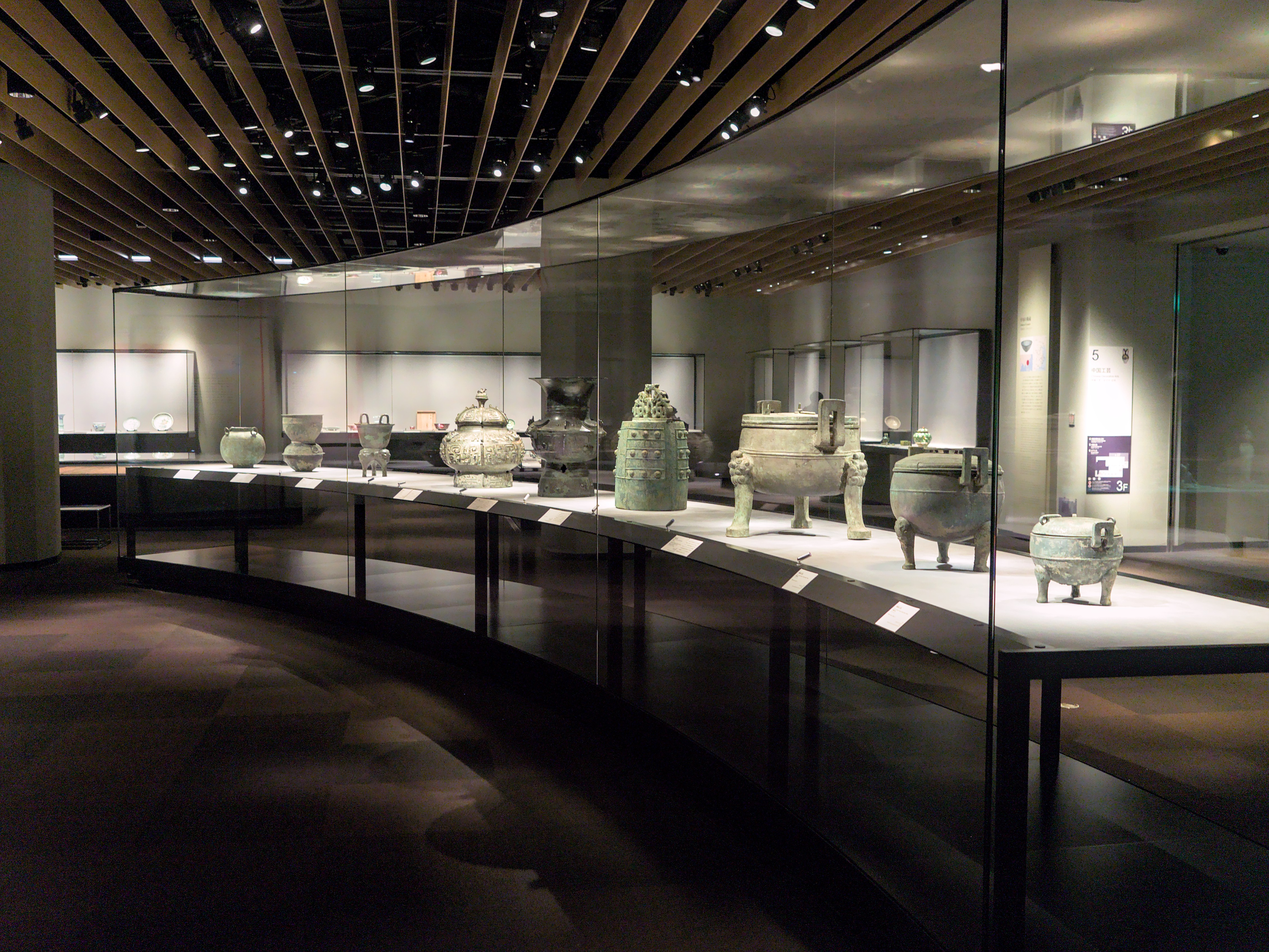 Chinese arts in the Toyokan (asian gallery) of the Tokyo National Museum